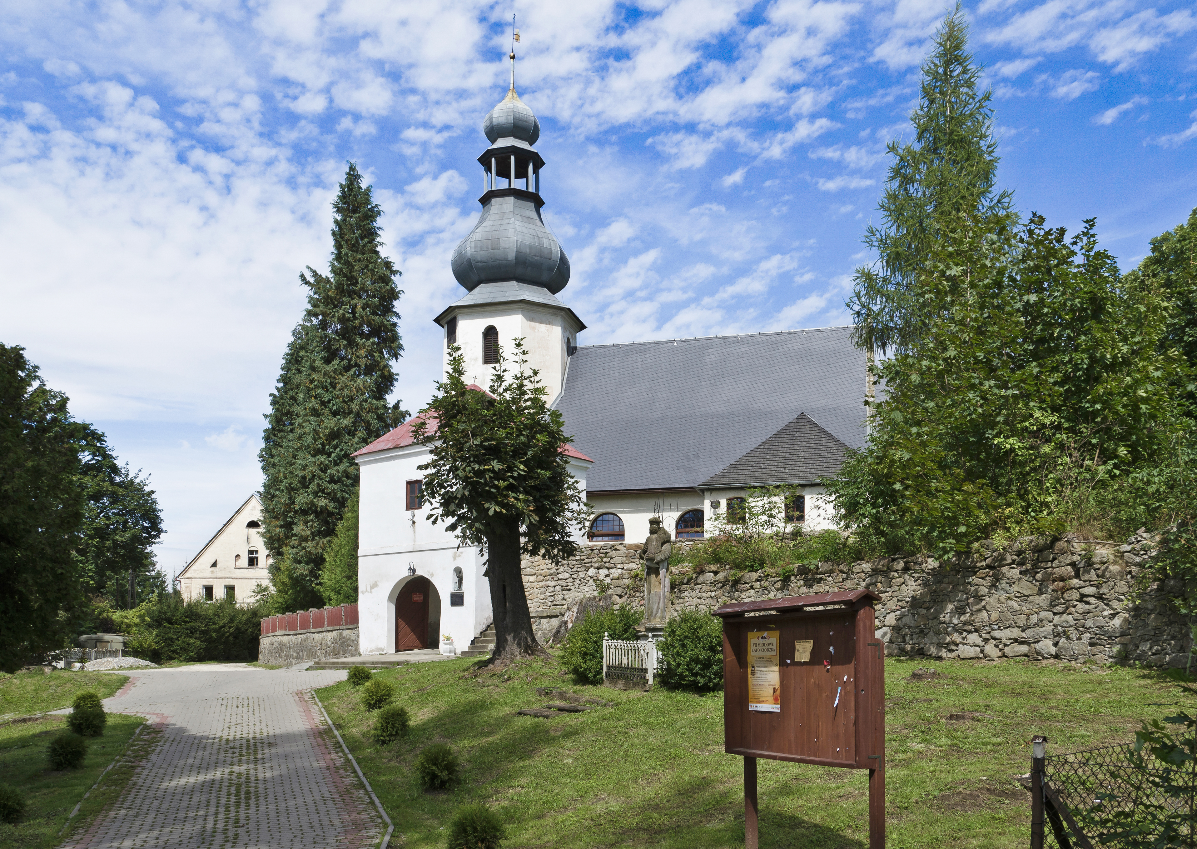 Saint Nicholas church in Nowy Waliszów